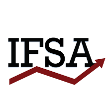 IFSA Network Logo